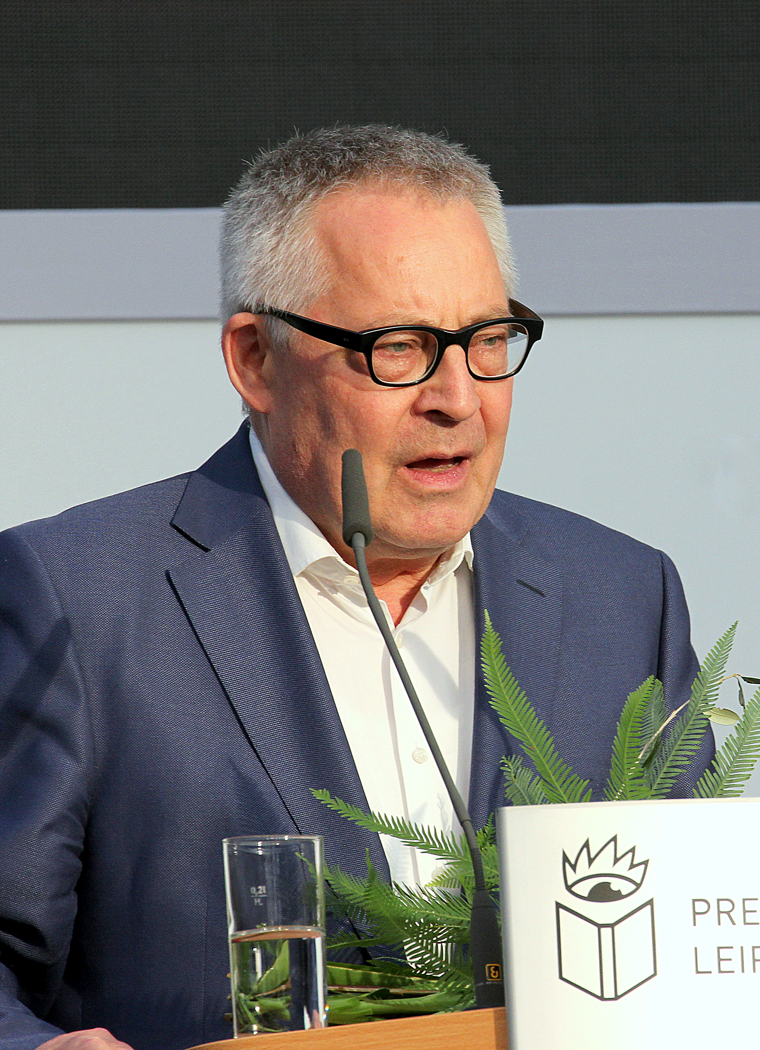 Karl Schlögel Leipzig Book Prize Laureate 2018 in the category non-fiction